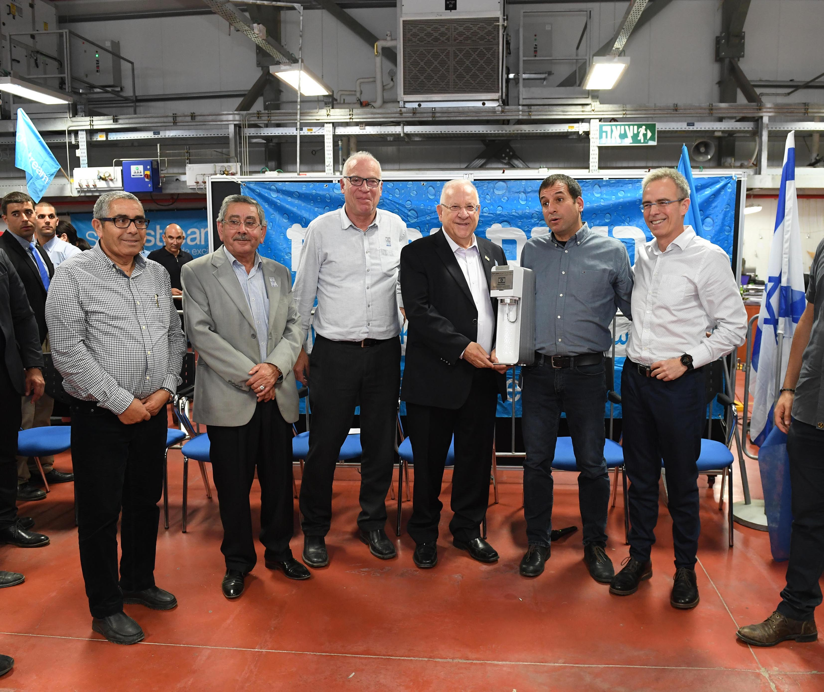 President of the State of Israel, Reuven Rivlin, and Minister of Agriculture and Rural Development, and the Director of Bedouin Development and Settlement, Uri Ariel, touring a school for the Bedouin population and the Soda Stream factory Tuesday, November 28, 2017. Photo Credit: Mark Neyman / GPO.